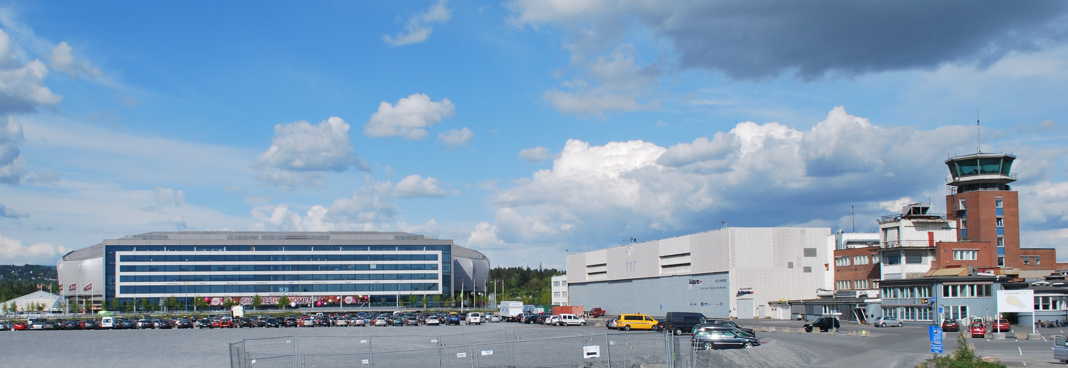 Telenor Arena (left) and the airport traffic control tower of former Fornebu airport (closed 1998)